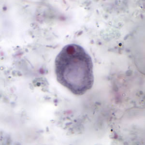 cysts